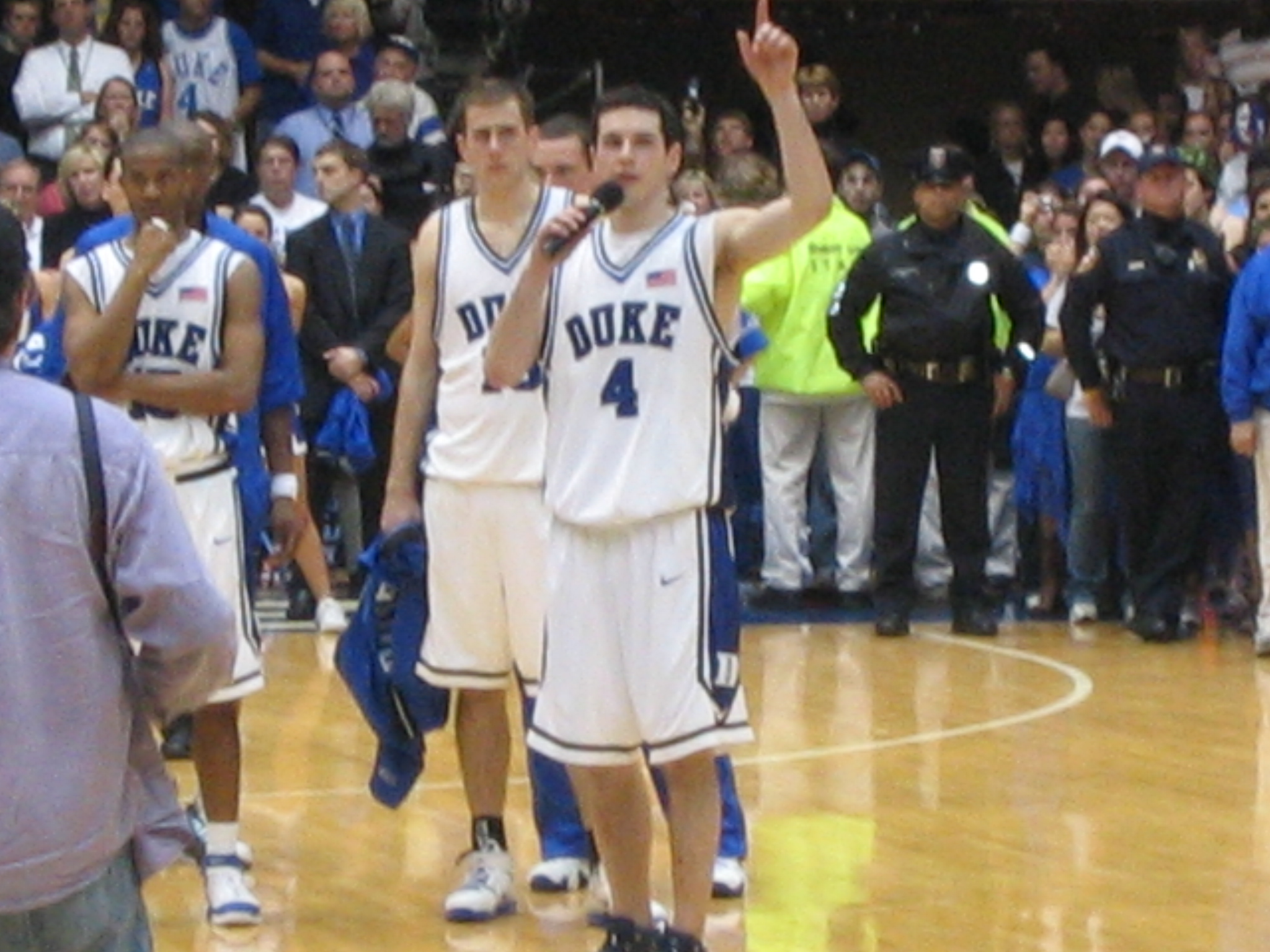 JJ speaking to the crowd after his last game in Cameron Indoor Stadium